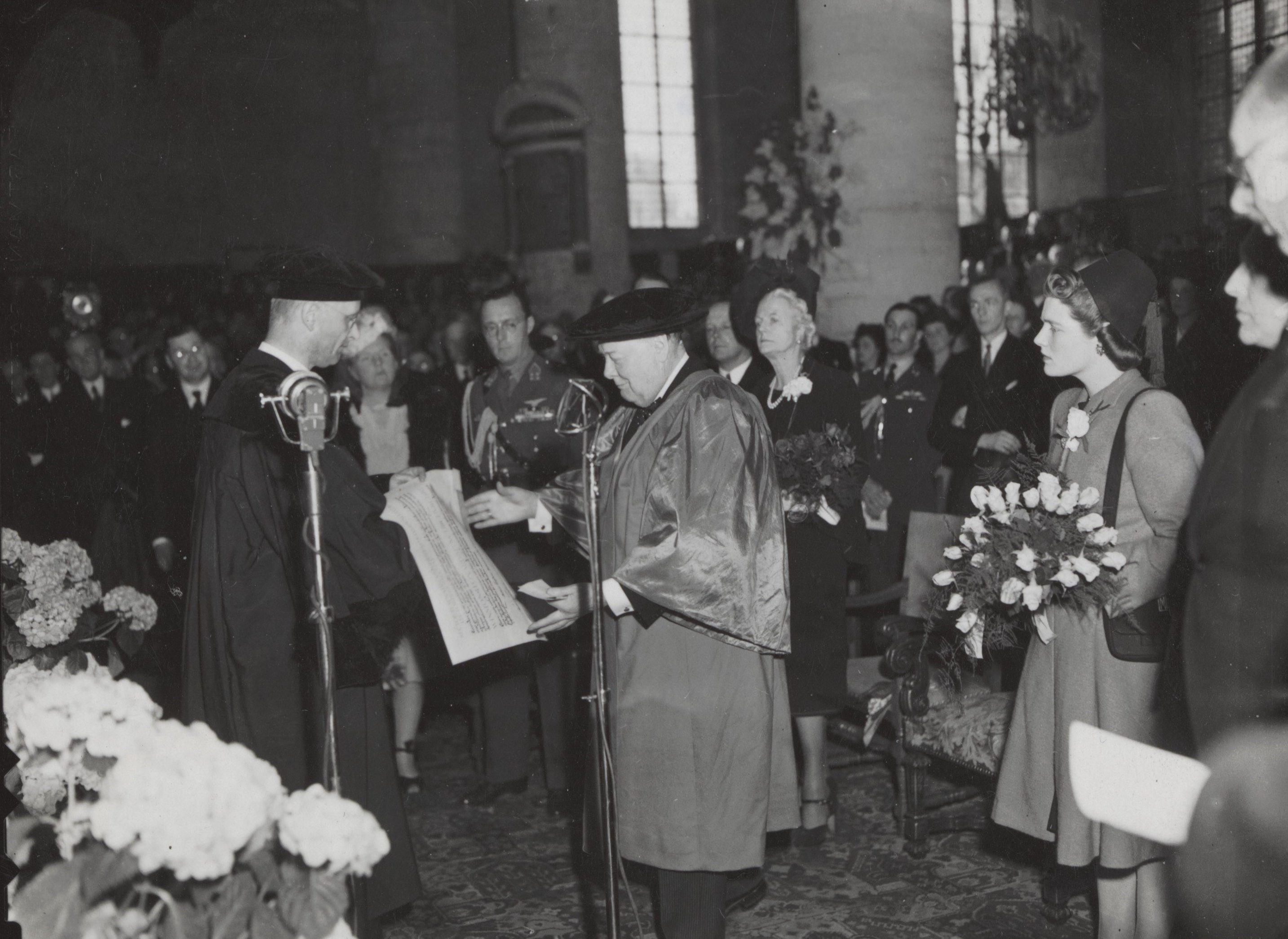 Honorary doctorate of Leiden University handed over to Winston Churchill by R.P. Cleveringa. Pieterskerk Leiden, 10 May 1946